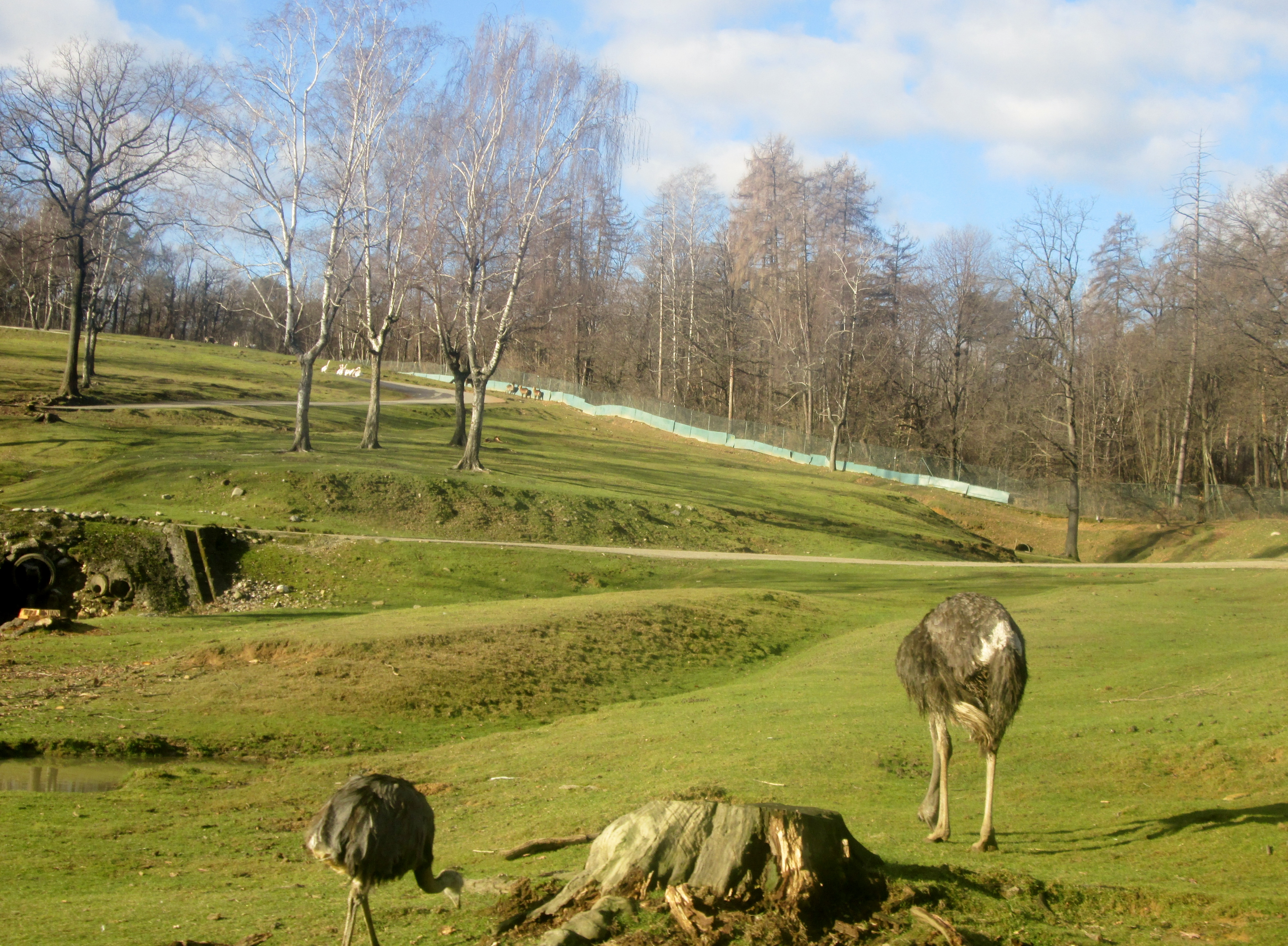 Ostrichs and Emus in Pombia Safari Park ITALY